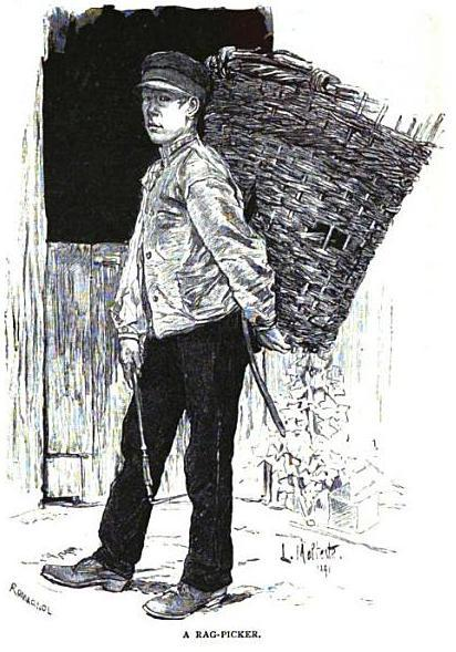 Engraving of a rag-picker.